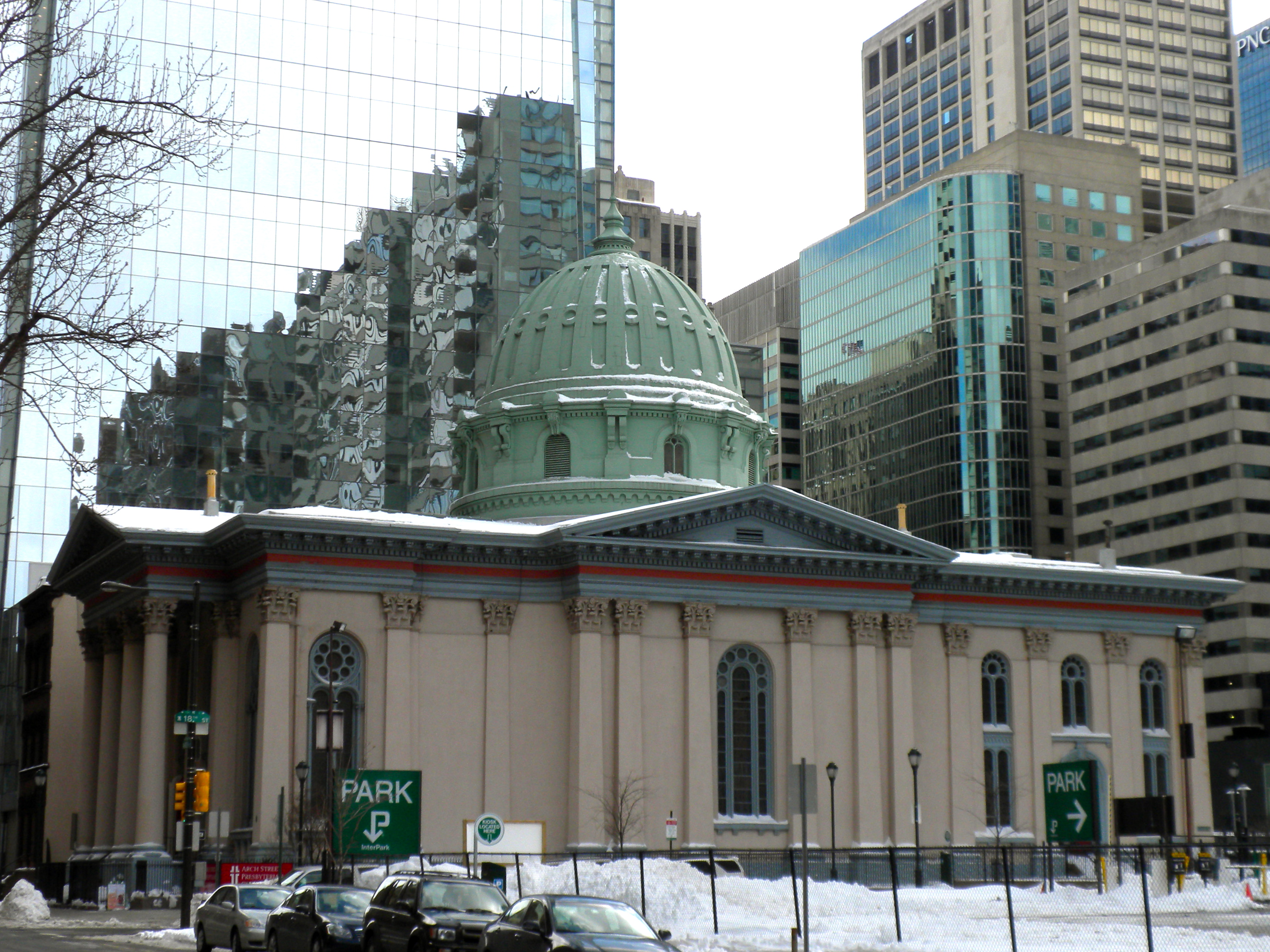 Arch Street Presbyterian Church in Philadelphia. On NRHP since May 27, 1971, 1726–1732 Arch Street In Logan Square neighborhood. Clarence E. Macartney was the pastor of this congregation from 1914 to 1927.